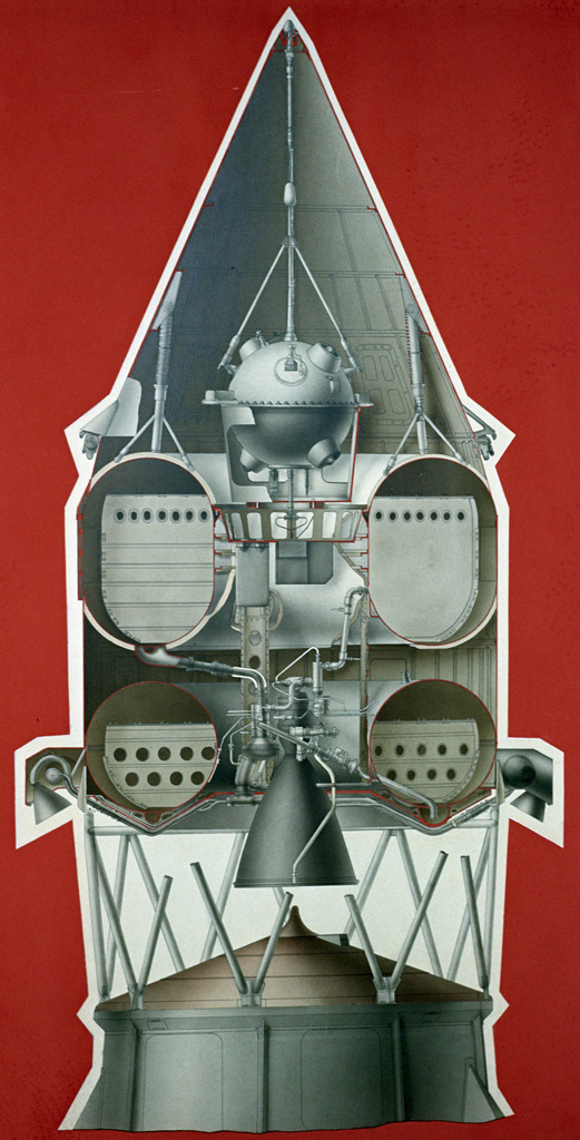 “A scheme of the Luna-1 lay-out”. A scheme of the Luna-1 lay-out with the upper-stage launch vehicle.